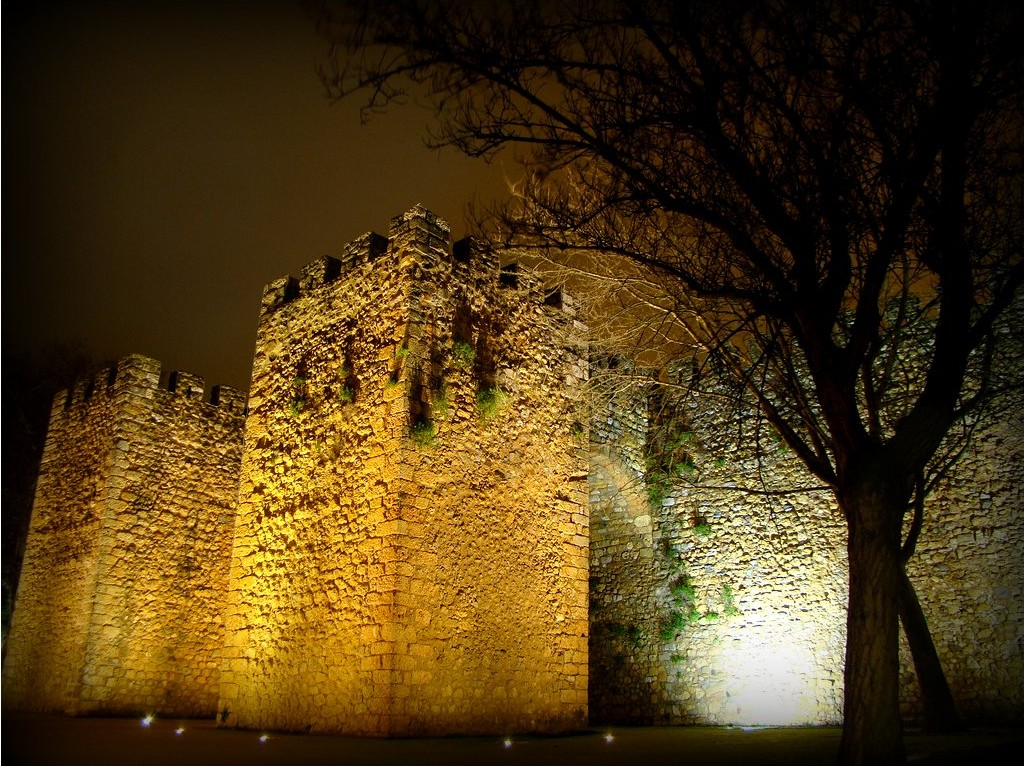 The twin barbican towers which project from the city walls at St. Gonçalo's gate, Lagos Castle (Castelo de Lagos) within the city of Lagos, Algarve, Portugal.